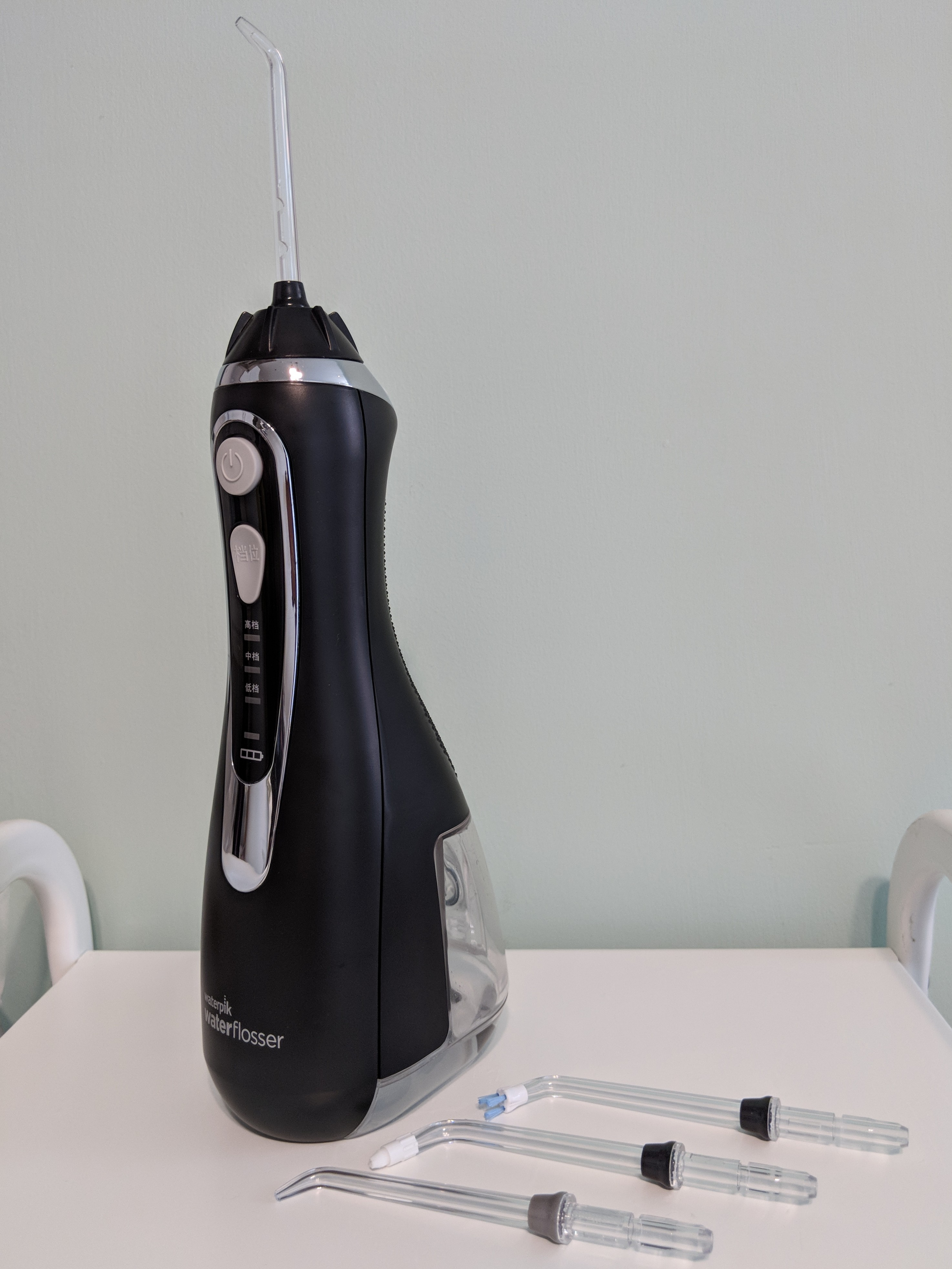 An oral irrigator.